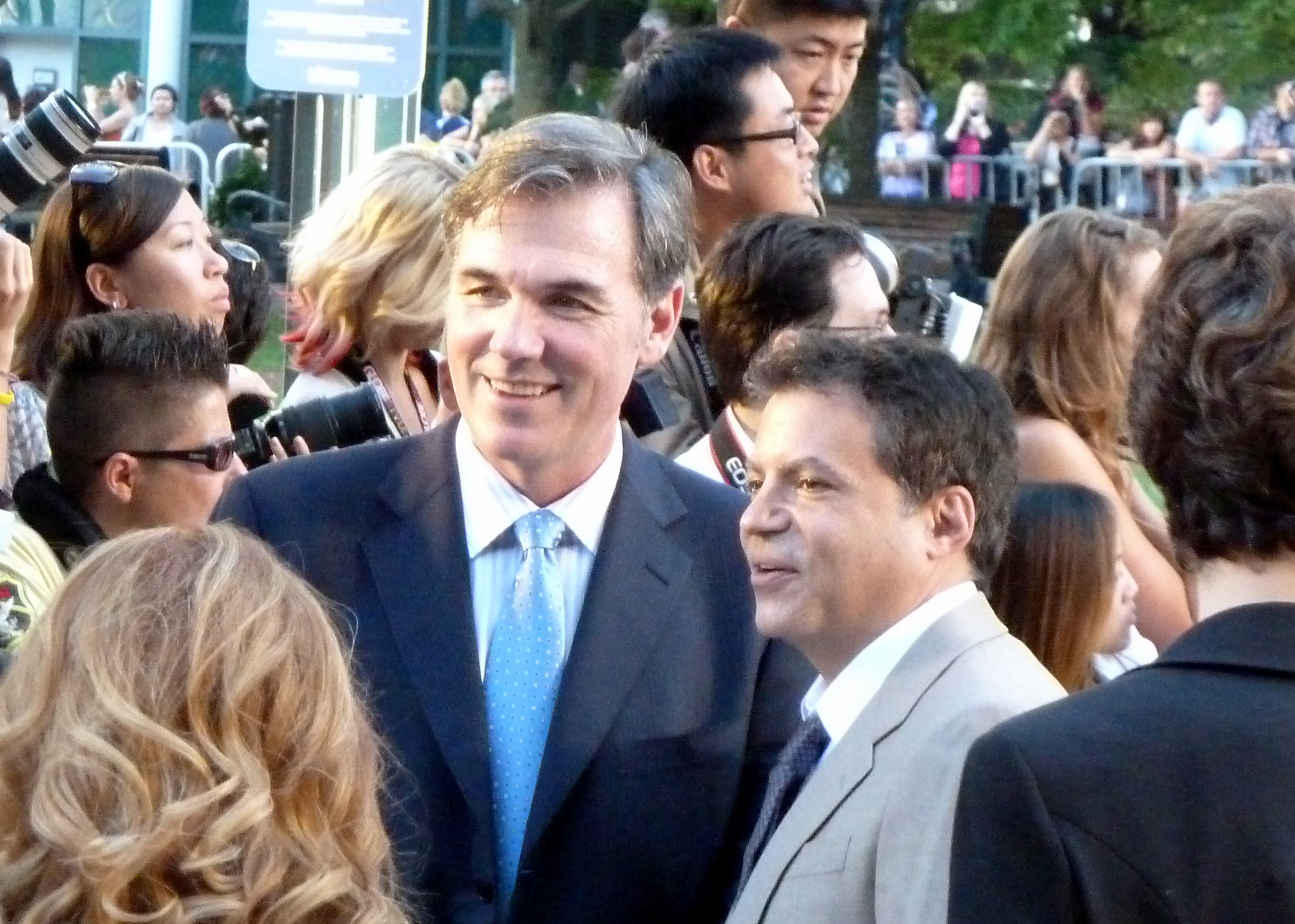 Brad Pitt plays as Billy Beane (left) and Jonah Hill plays as Peter Brand based on Paul DePodesta (right). Paul didn't quite like how he was portrayed in the movie, so that's how Peter Brand came about. Here are the real guys.